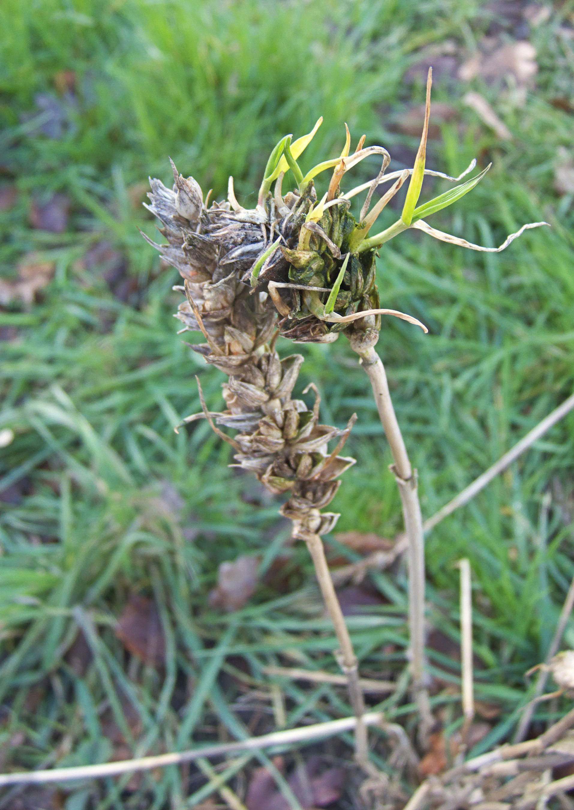 Triticum aestivum, germination in the ear